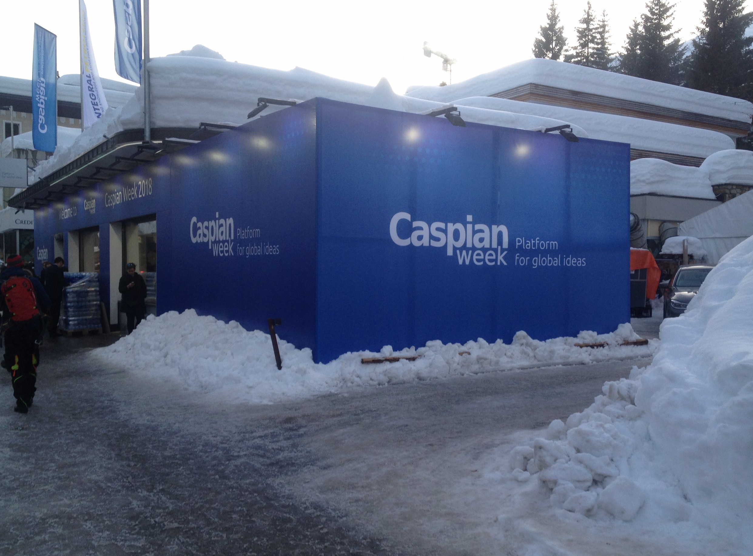 Some of the local Davos shops during the World Economic Forum turn into exhibiton locations such as this shop being a sports shop all year but during the WEF